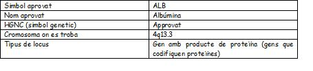 albumina